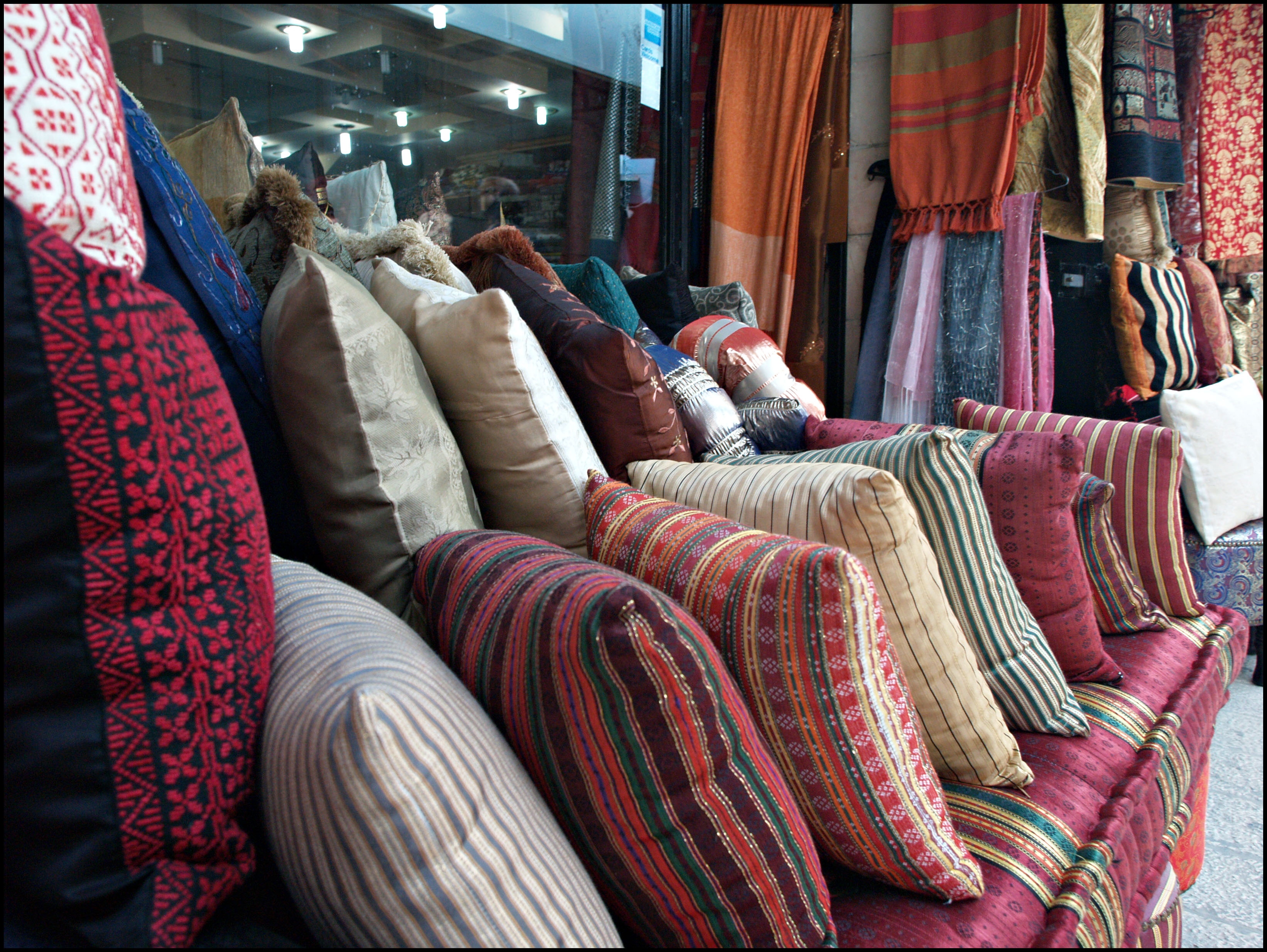 Old Jerusalem, Suq Aftimos - Israel streets by Dainis Matisons